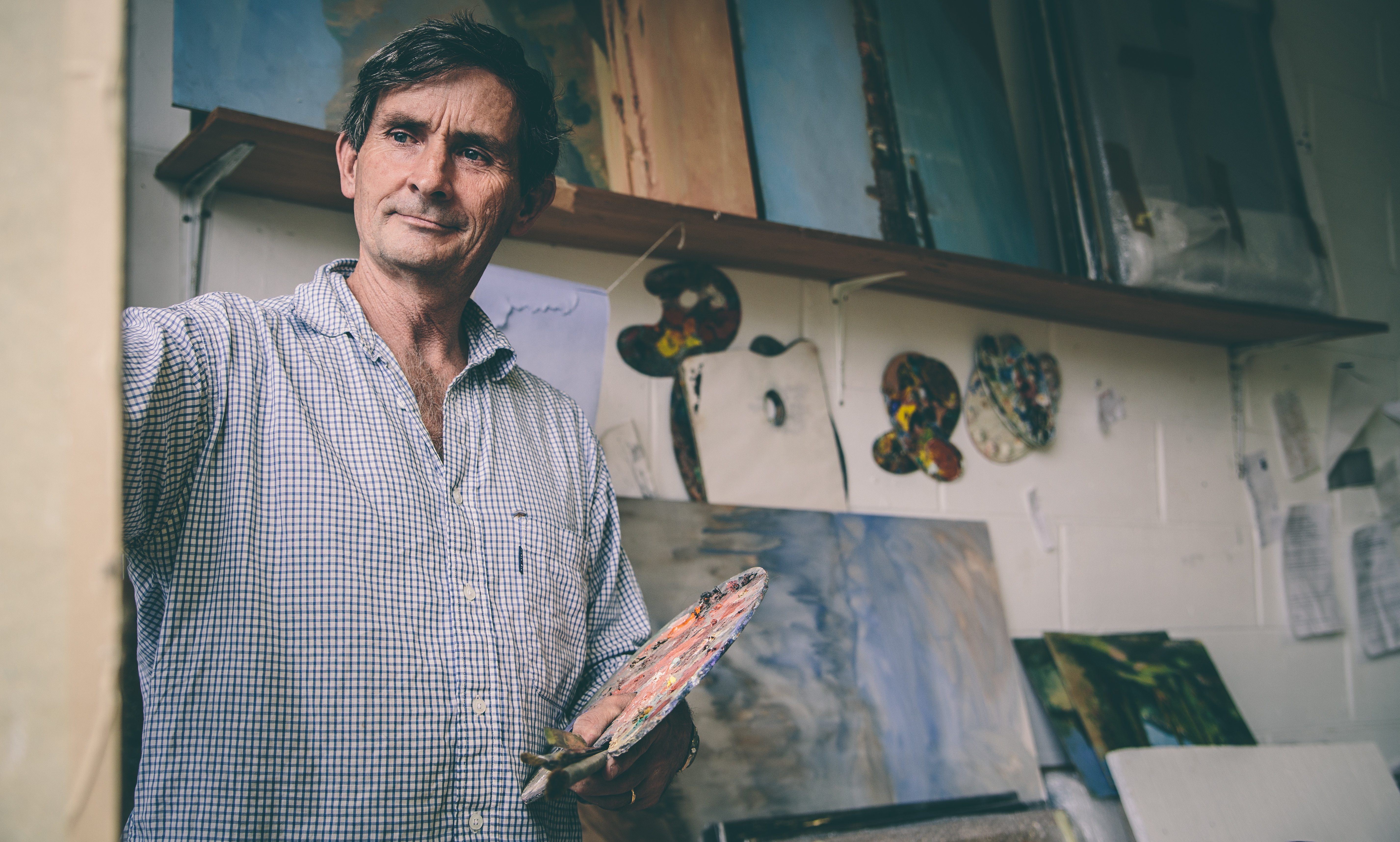 photograph of Michael Alford in his studio